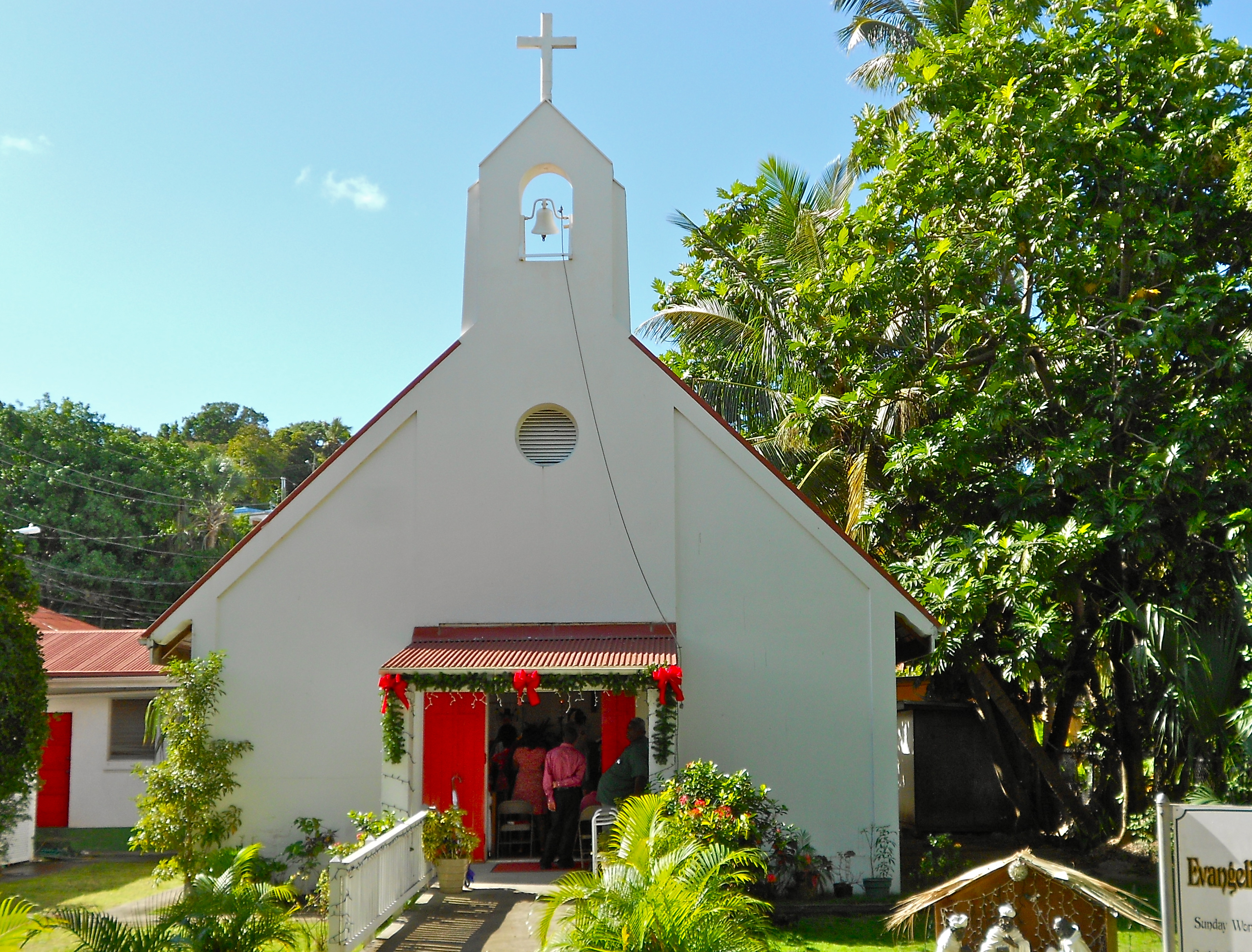 Evangelical Lutheran Church in Cruz Bay, St. John, US Virgin Islands